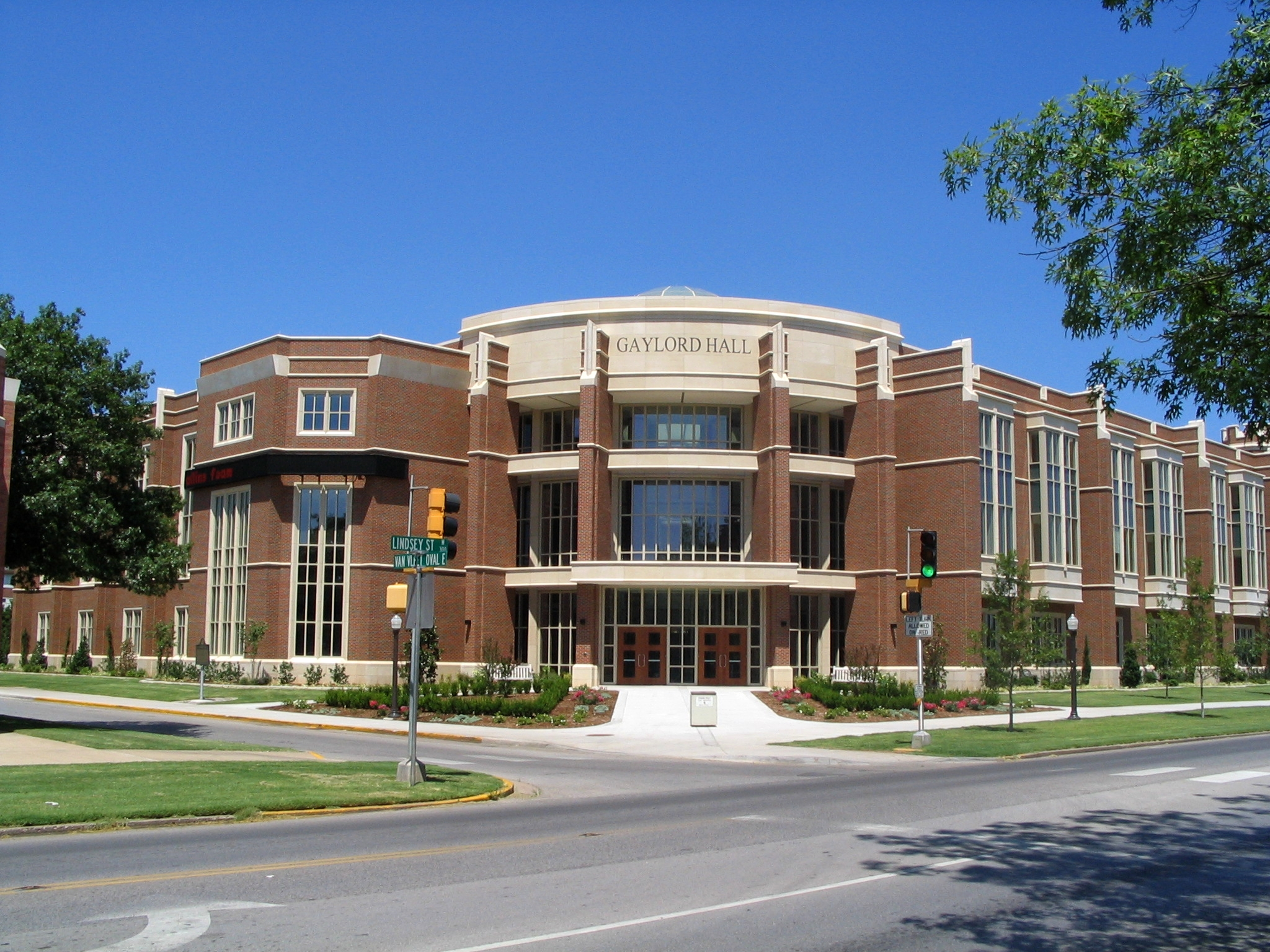 Front of Gaylord Hall in Norman, OK.